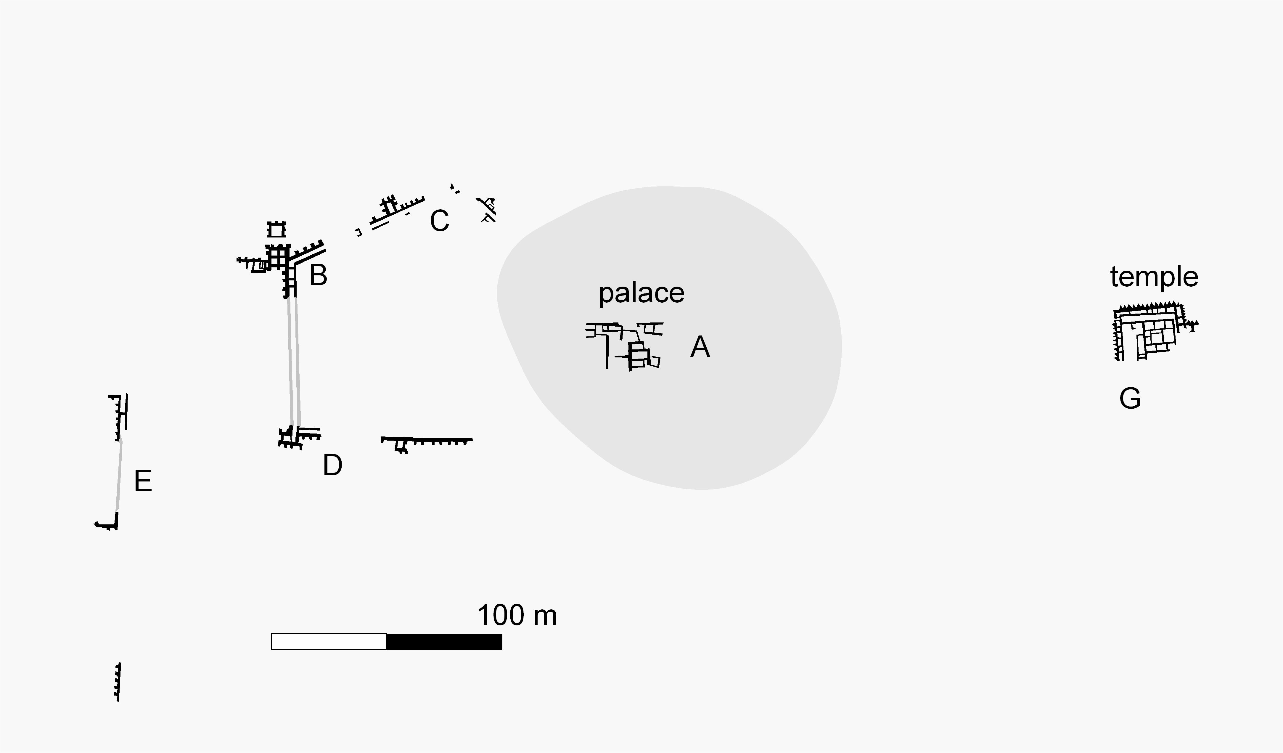 Mundigak, remains of level IV, after Casal: Fouilles de Mundigak, Paris 1961, fig. 21